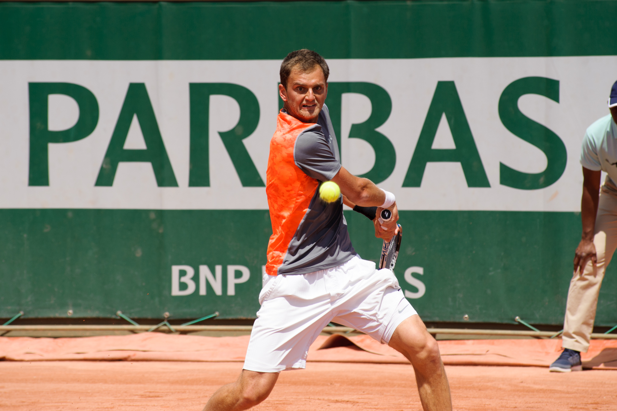 2015 Roland Garros Qualifying Tournament, Paris, France.